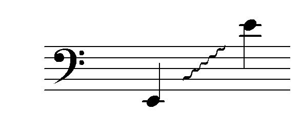 voice range of an bass